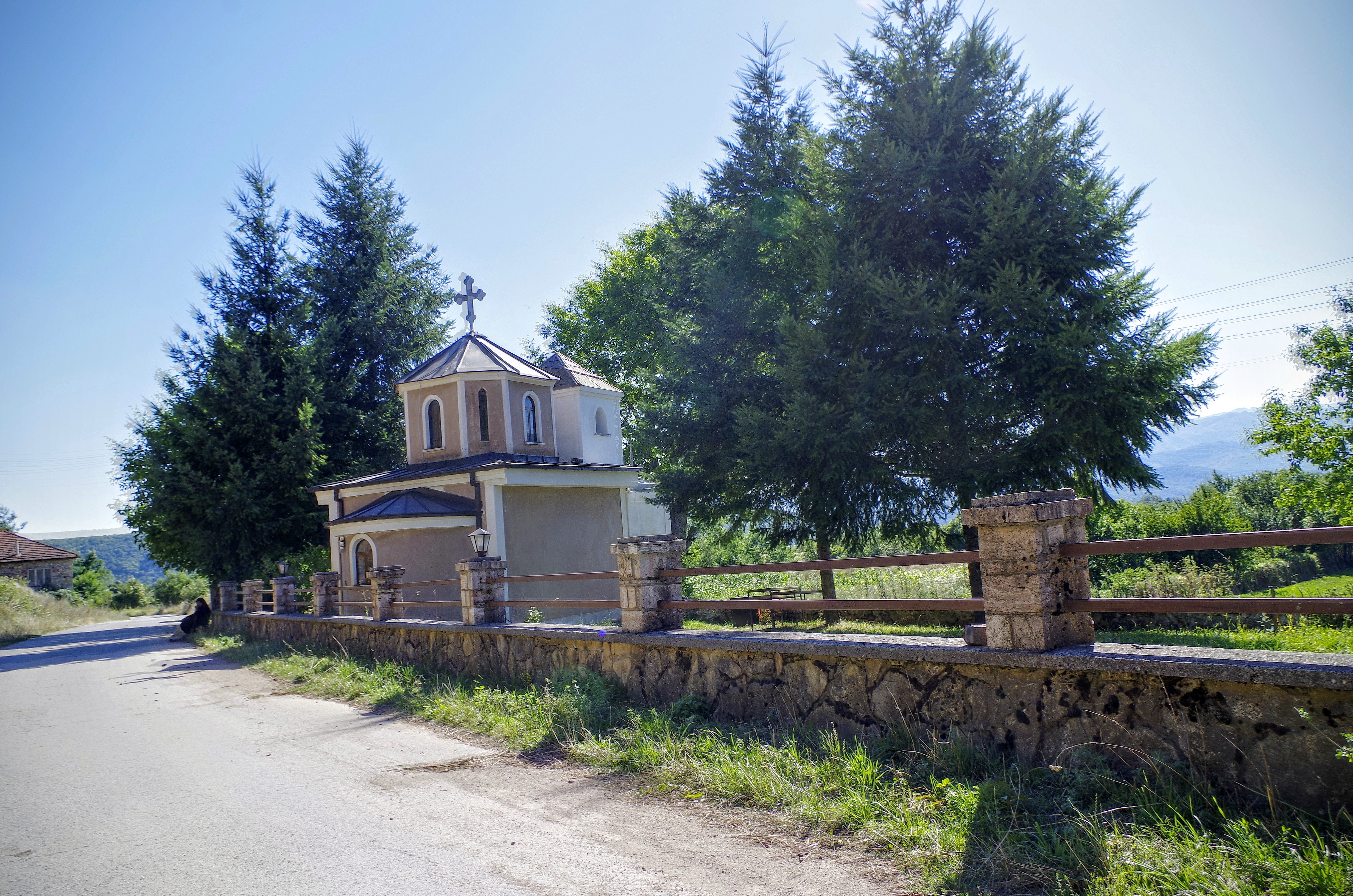 View of the Church of the Theotokos in the village Slatinski Čiflik